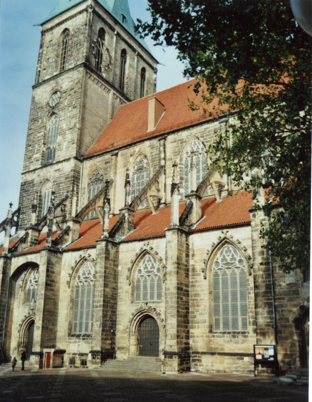 Saint Andrew's Church in Hildesheim